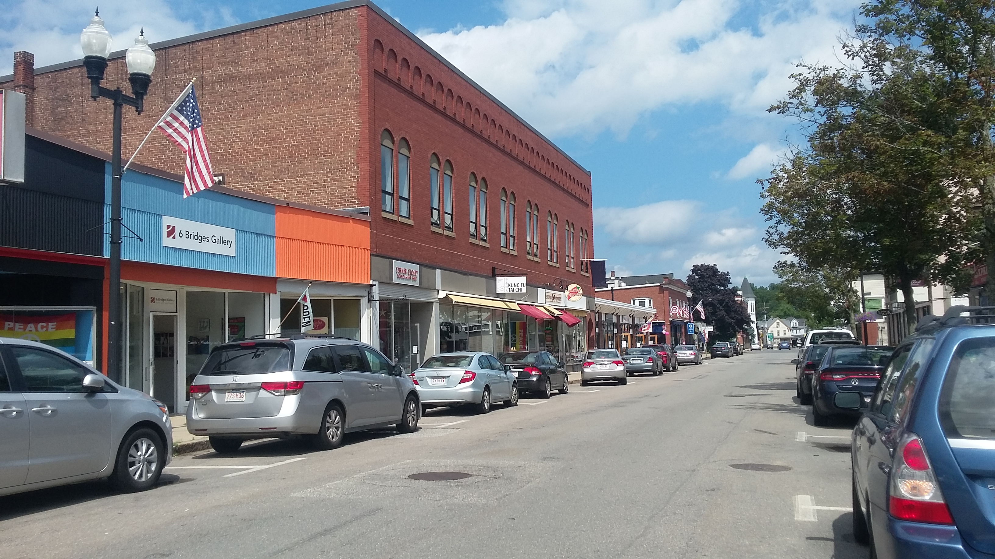 Main Street shops in downtown Maynard Massachusetts MA USA